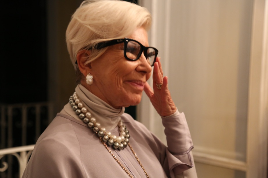 Anna Fendi during a ceremony in Anzio, Italy